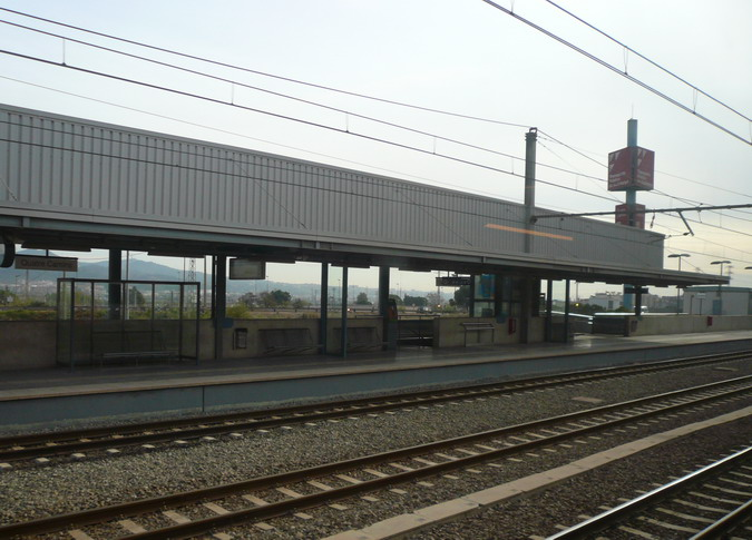 Quatre Camins station.